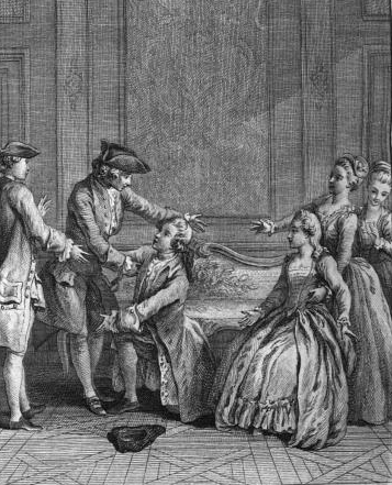 Scene from the 5th act of the play Eugénie by Beaumarchais.